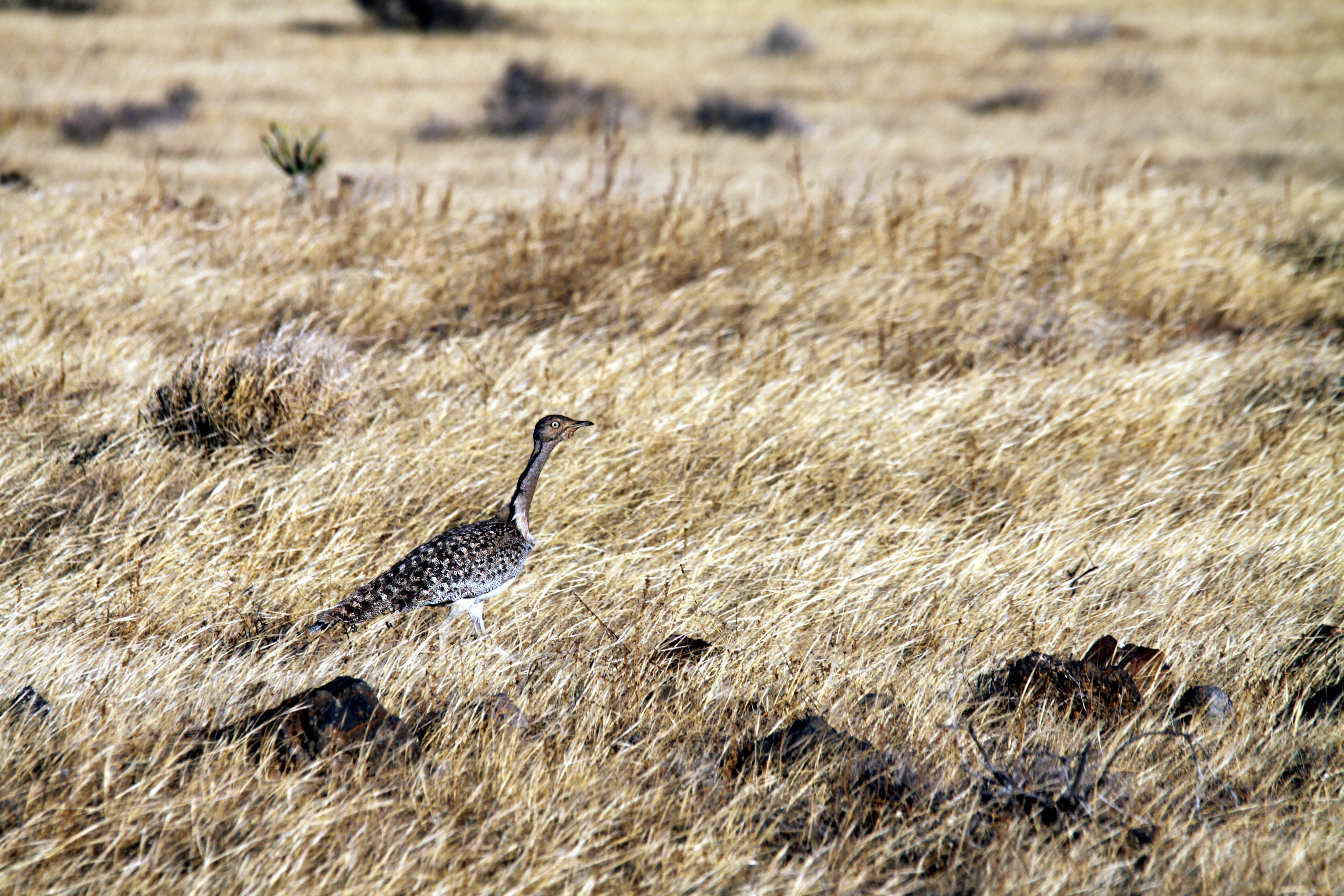 Houbara Bustard (Chlamydotis undulata) photographed on Lanzarote, The Canary Islands, Spain - OpenStreetMap(Info)